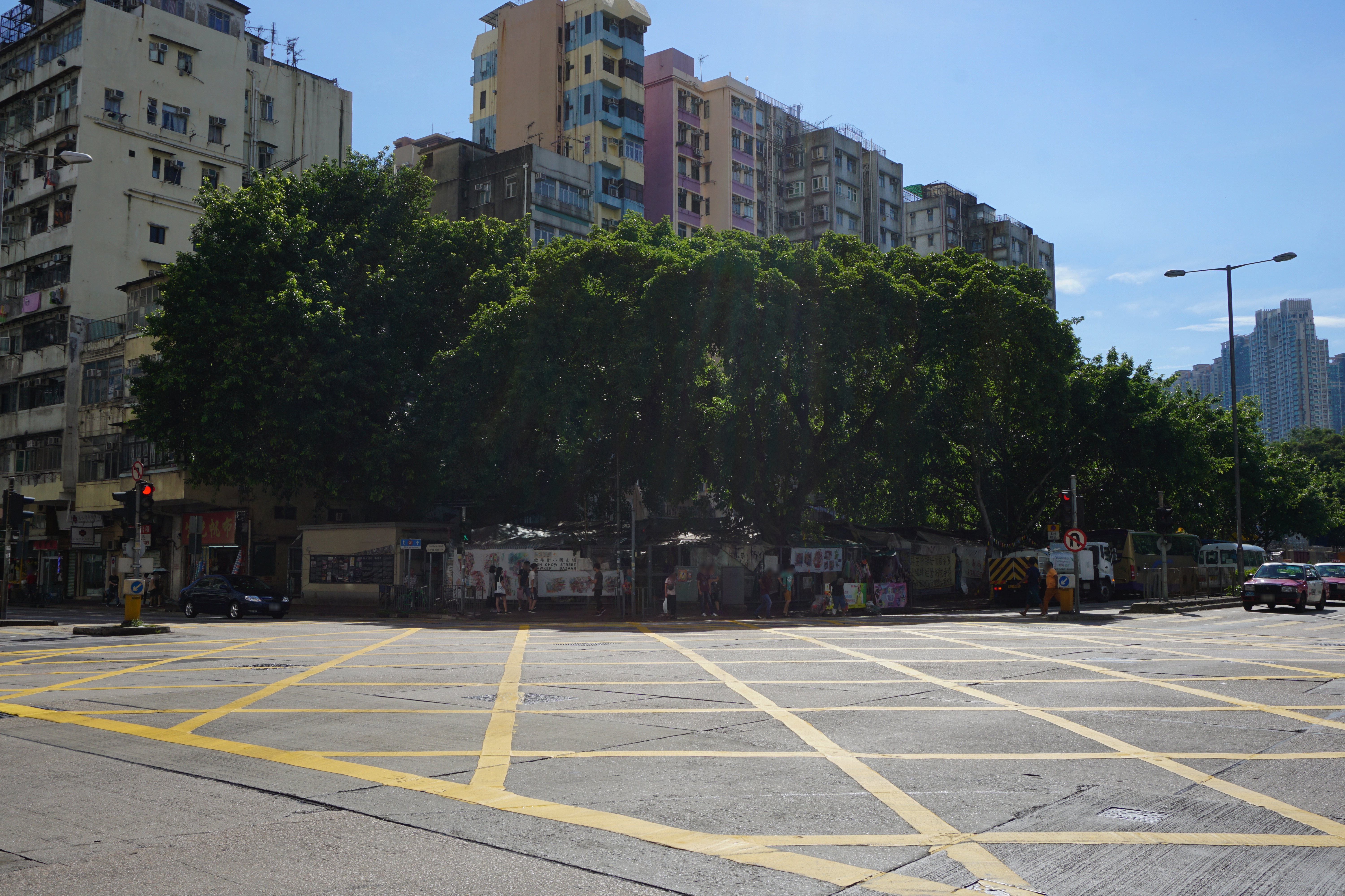 Yen Chow Street HOS court in Sham Shui Po, Hong Kong.